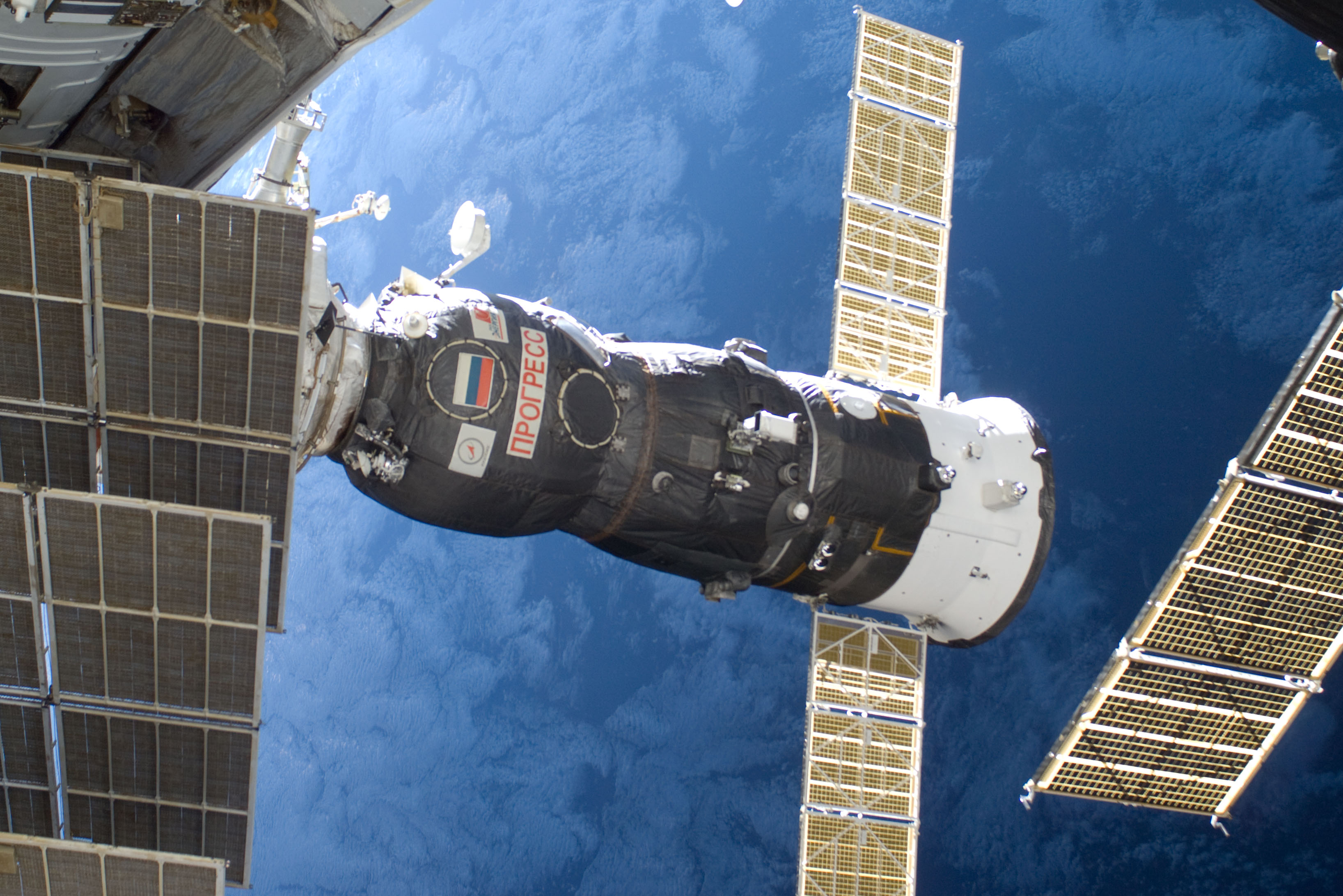 A Russian Progress resupply vehicle docked to the International Space Station is featured in this image photographed by an Expedition 21 crew member while space shuttle Atlantis (STS-129) remains docked with the station. A blue part of Earth provides the backdrop for the scene.